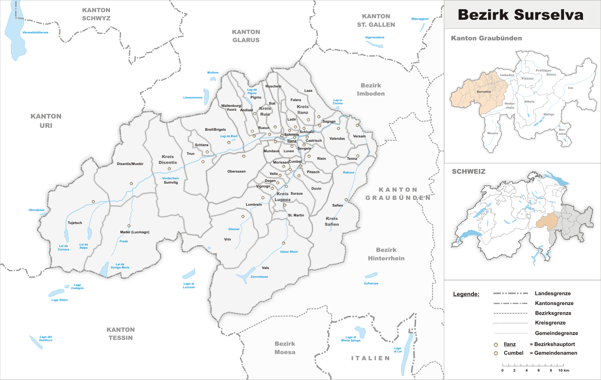 Municipalities in the district of Surselva